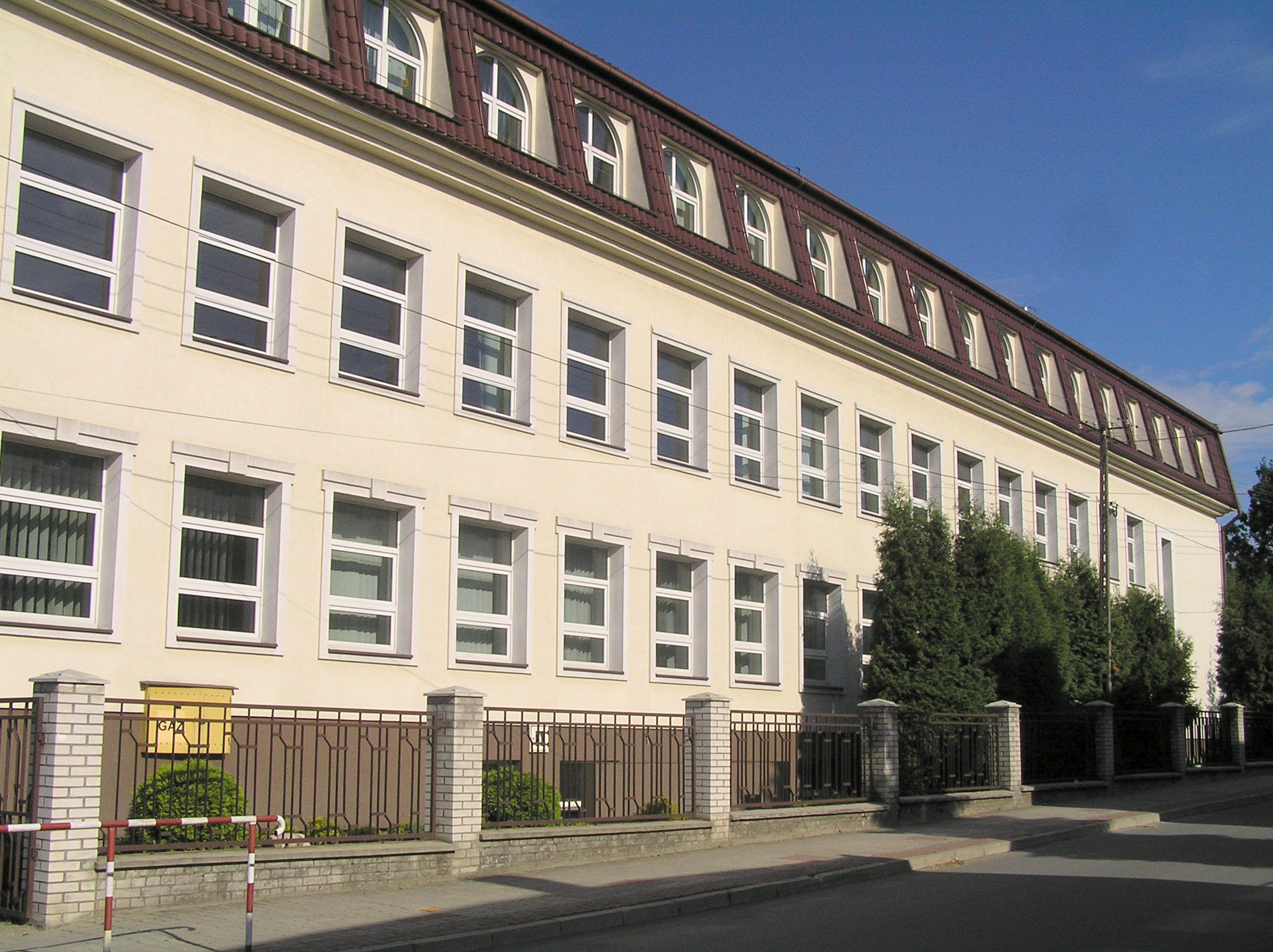 Gymnasium (school) in Sędziszów Małopolski